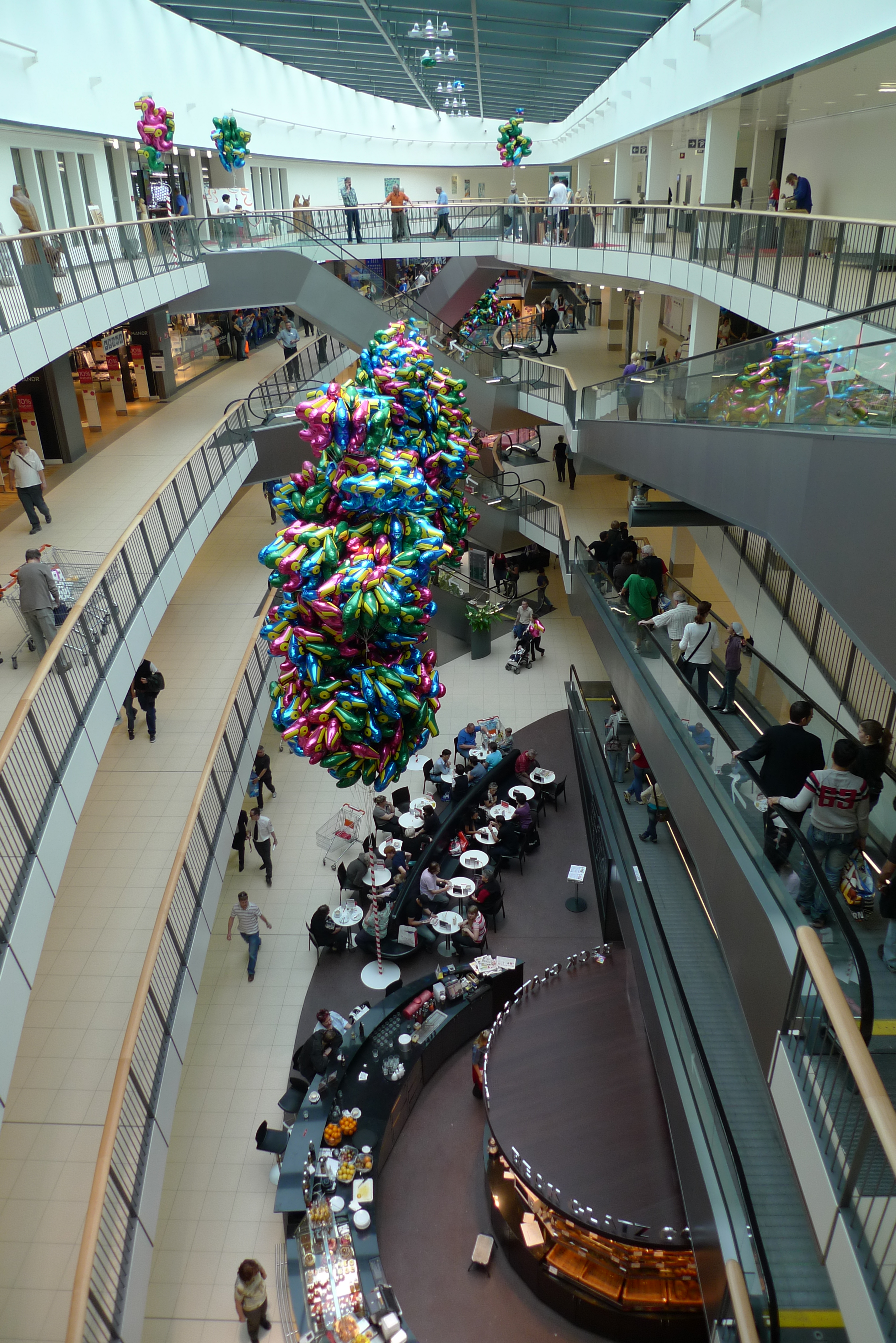 "Shoppyland" shopping mall at Schönbühl near Bern, Switzerland.